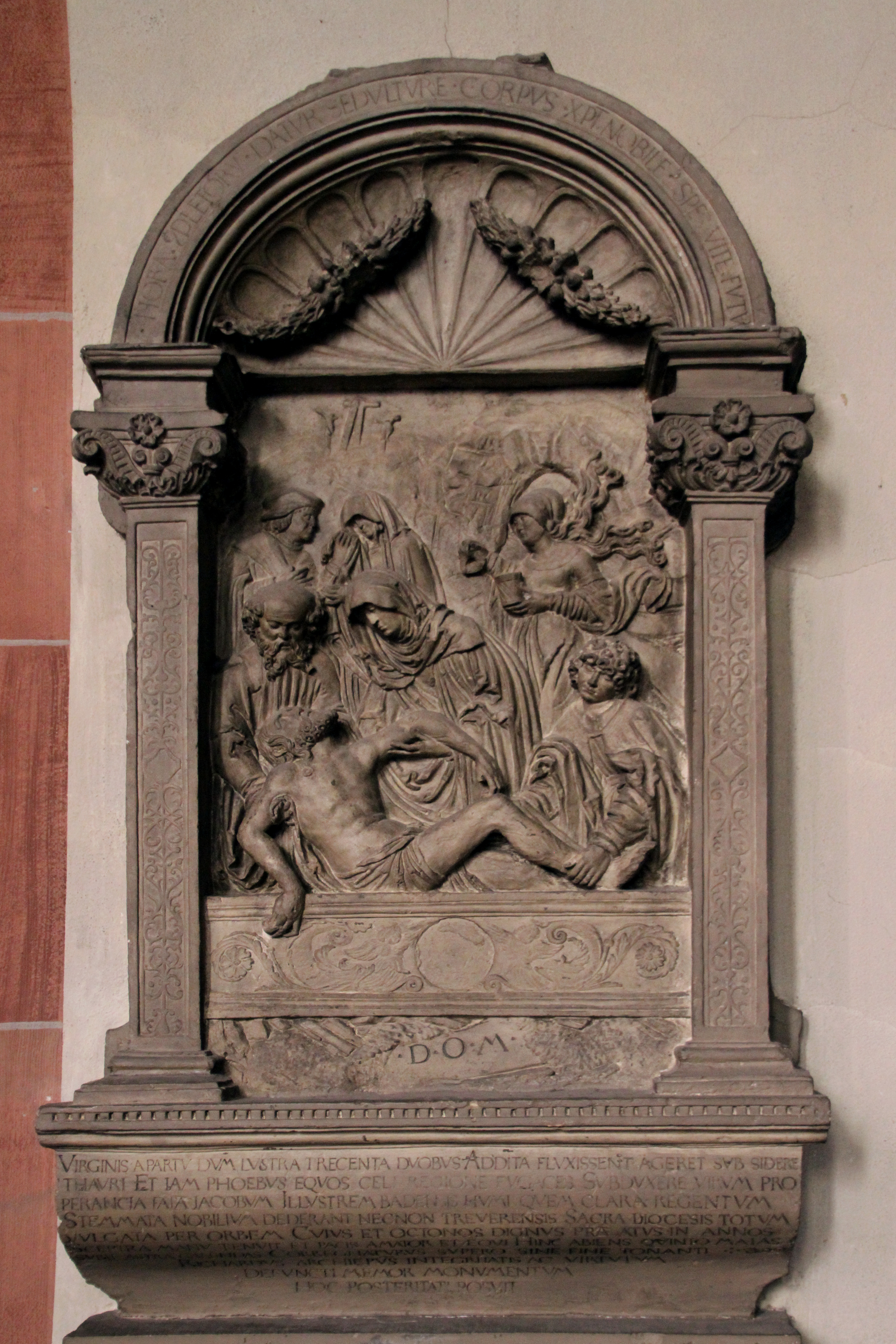 Epitaph of Margrave Jacob II in the Stiftskirche Baden-Baden.